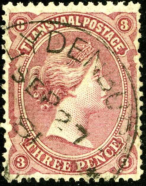 Transvaal postage, 3 pence dull rose SG 135, cancelled at LYDENBURG in 1881 (British Empire)